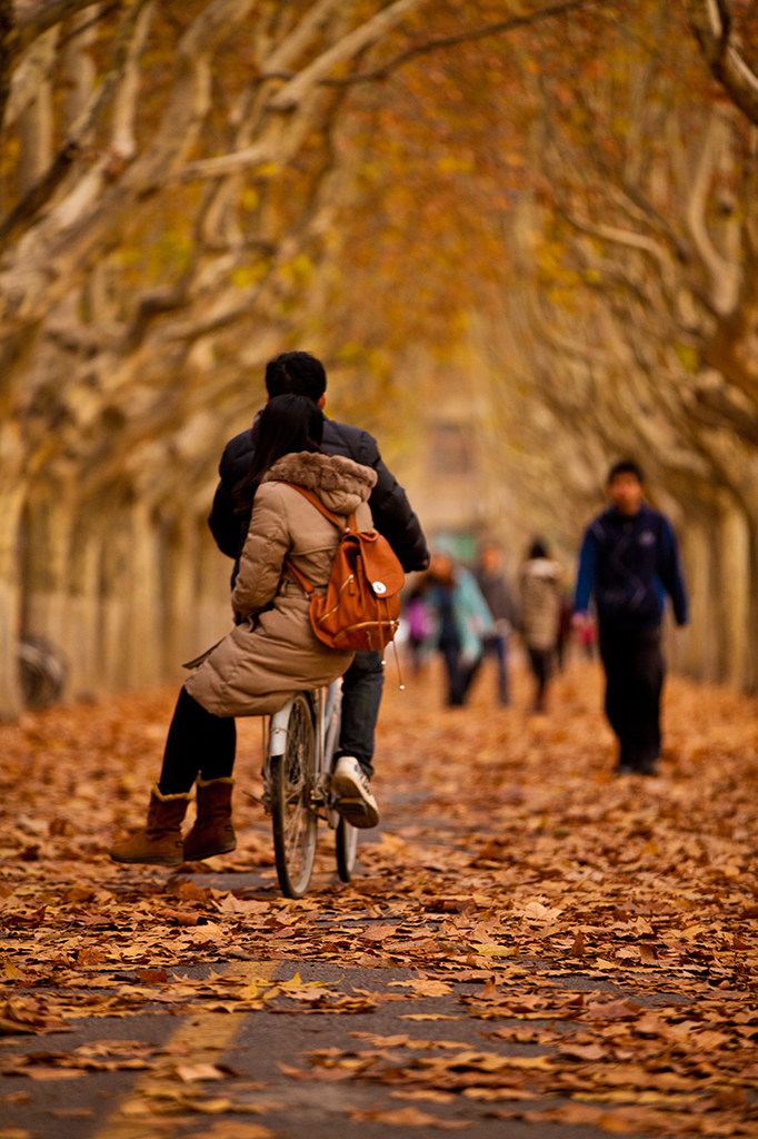 Fall in Xi'an Jiaotong University, China